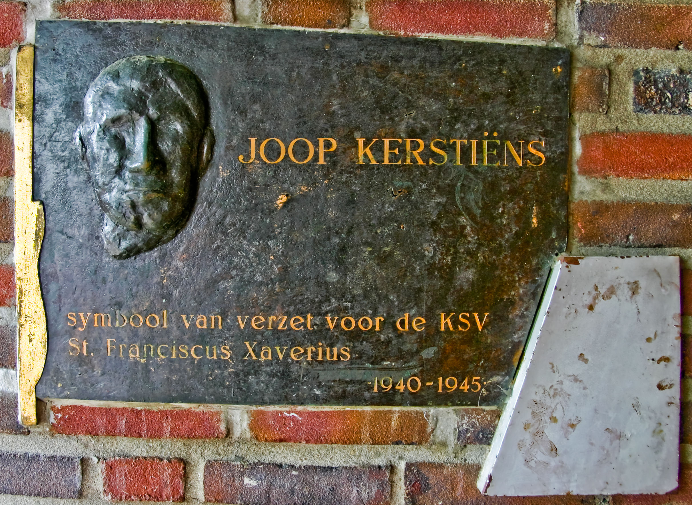 Memorial for Joop Kerstiëns at student association KSV in Wageningen, The Netherlands.